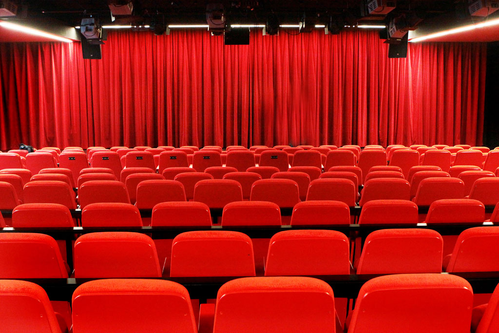 Renitenztheater, Theater, Auditorium, Foyer, Buechsenstrasse